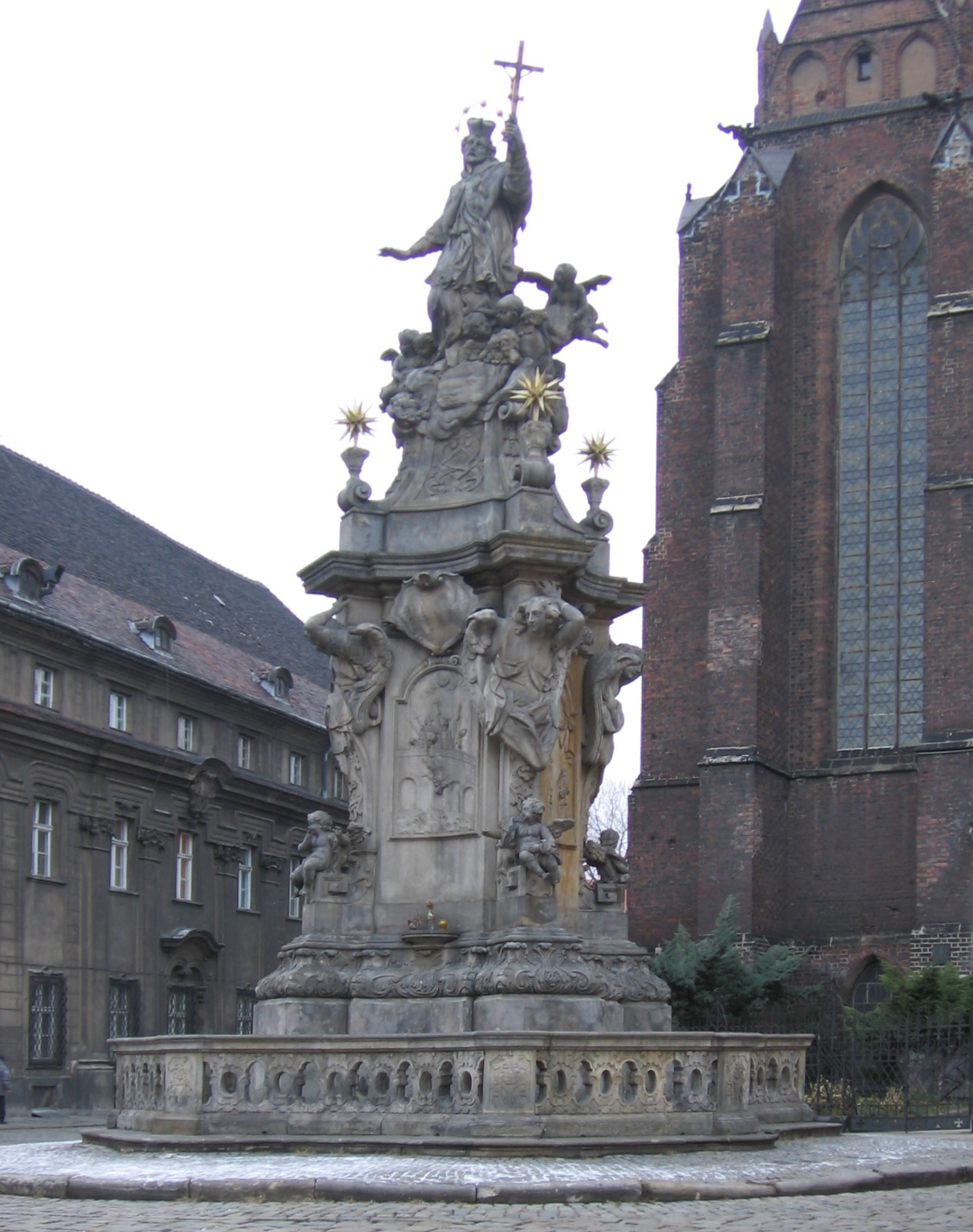 Wrocław, Poland Ostrów Tumski - Cathedral Island: St.John Nepomuk monument